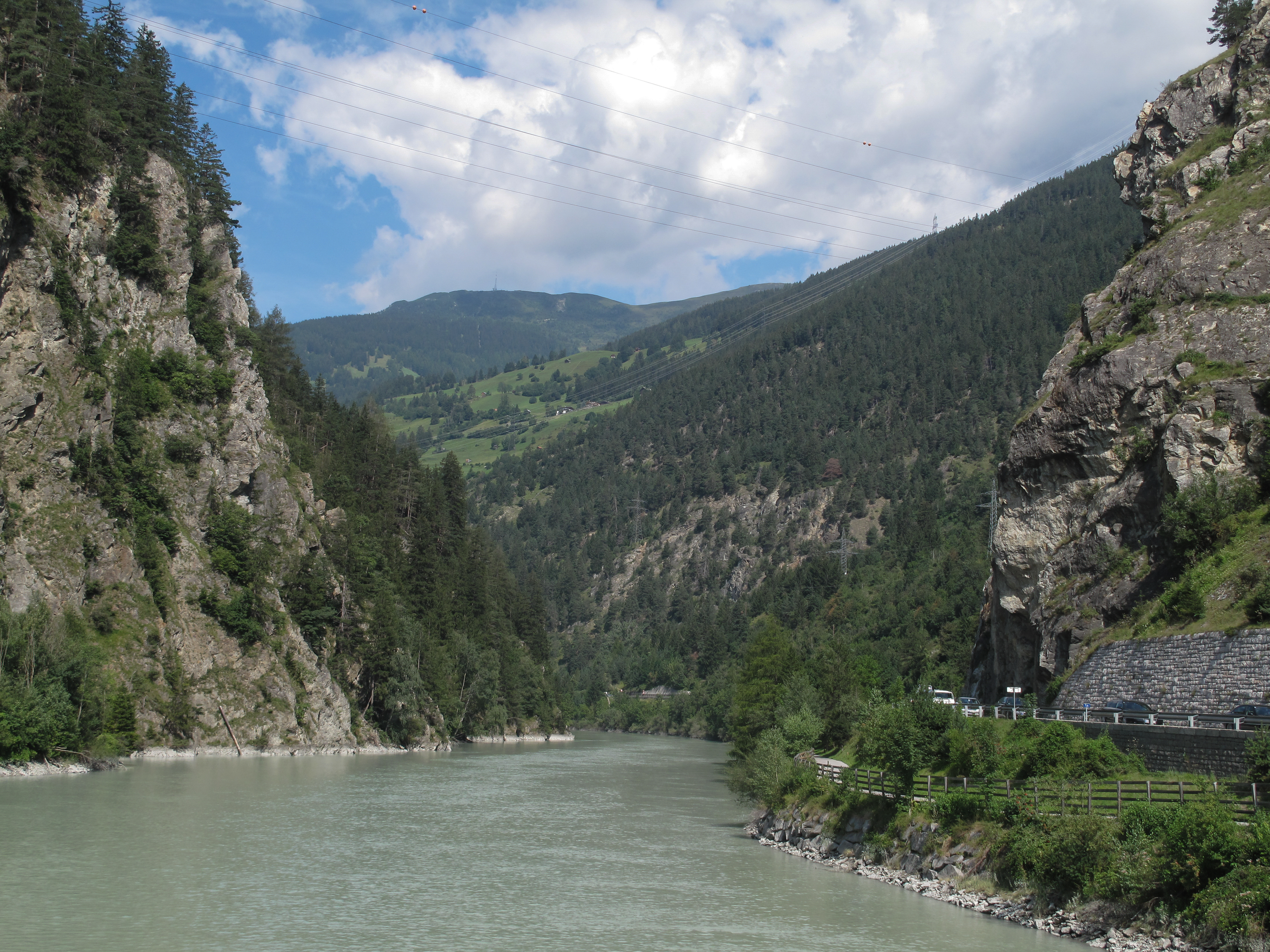 between Aussengufer and Fliess, river: der Inn